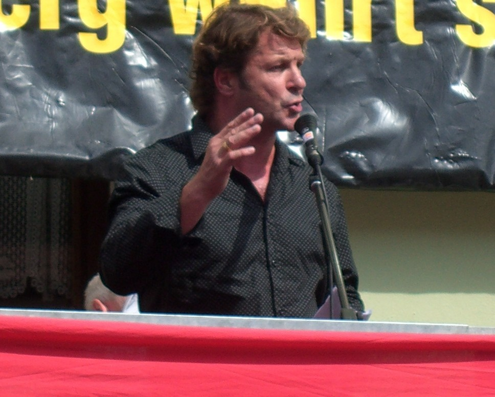 The cabaret artist Bernd Regenauer humorously addressing the audience of the anti nazi demonstration "Gräfenberg ist bunt" (Gräfenberg is colorful) at the market place of Gräfenberg in Upper Franconia (Bavaria, Germany) on 18. August 2007.